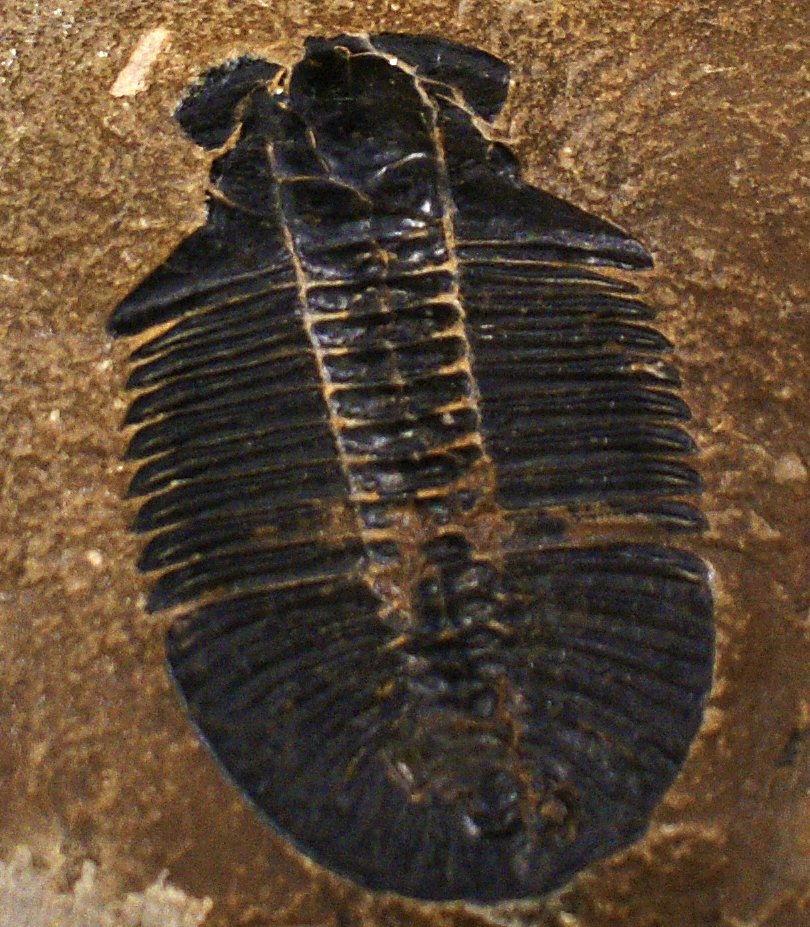 Crop of file in filename